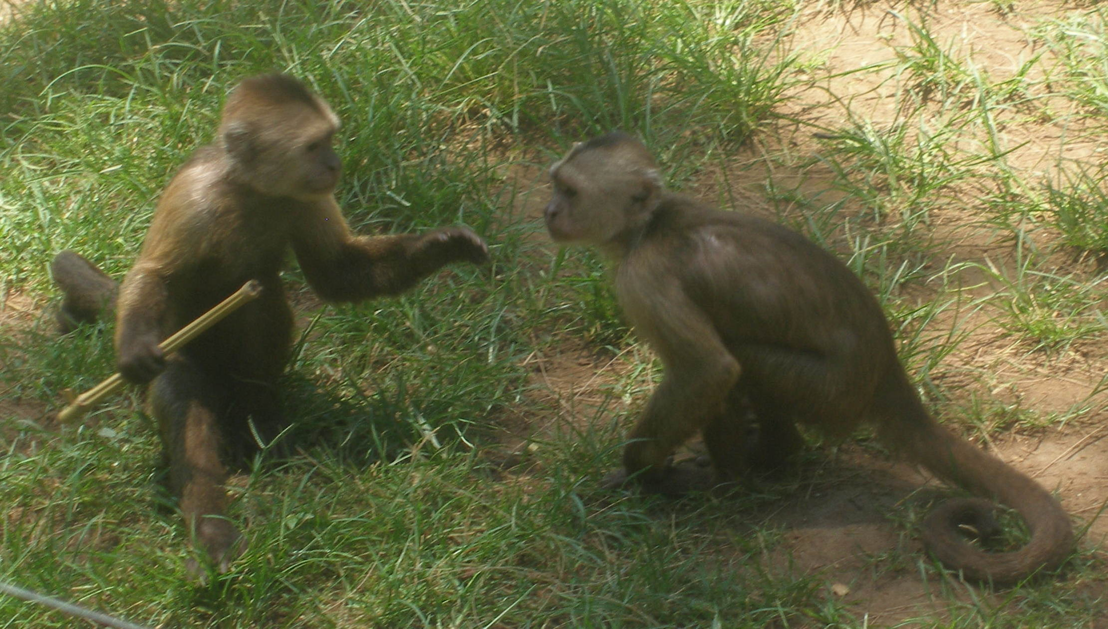 Weeper Capuchin. Taken in the Zoological Center of Tel Aviv-Ramat Gan, Israel